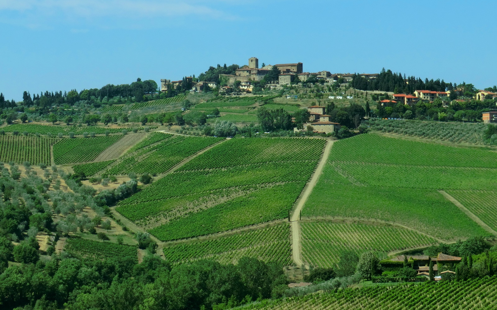 Tuscan landscape around the Panzano in Chianti area, Italy